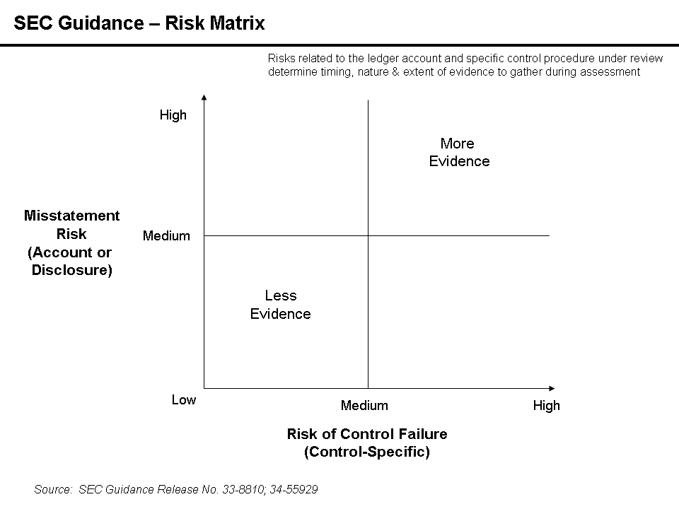 SEC Risk Graphic References Source is the 2007 SEC guidance, page 24.[1] I've added some captions to further clarify. ↑ SEC Interpretive Guidance